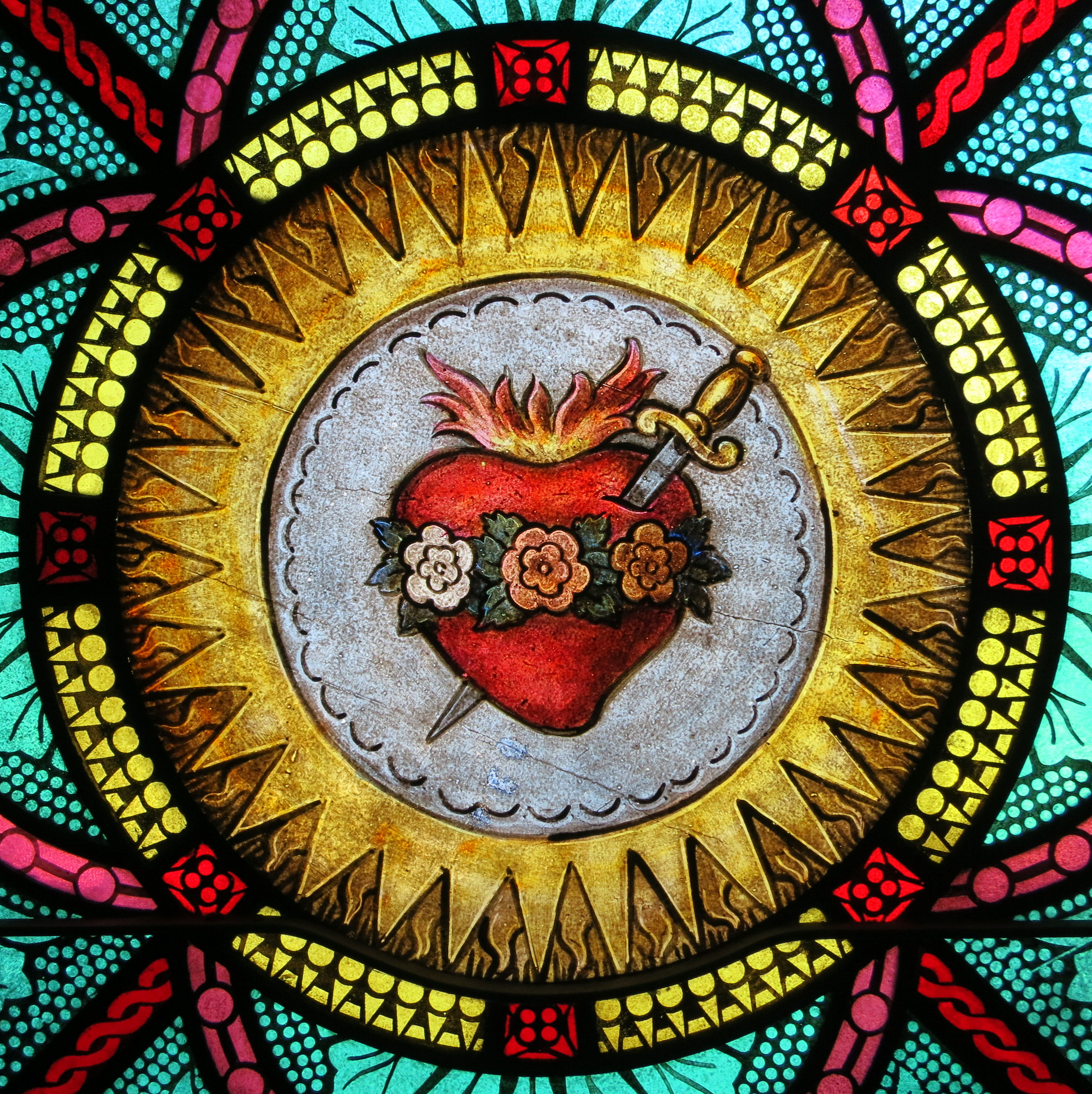 All Saints Catholic Church (St. Peters, Missouri) - stained glass, sacristy, Immaculate Heart detail